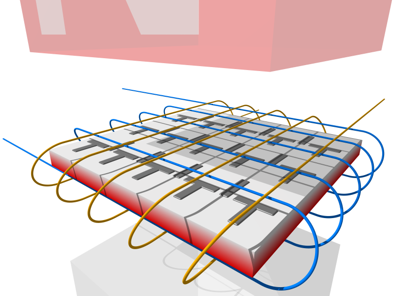 This image shows the setup of driver coils and guide pieces around and on the orthomagnetic sheet of a magnetic bubble memory. The coils together form a steadily rotating magnetic field along the surface of the sheet. Since the guides are ferromagnetic, they assume magnetic poles when magnetized by the coils, which in turn "coerces" the domains along the guide pattern.